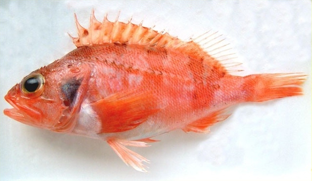 Blackbelly rosefish. Gulf of Mexico.